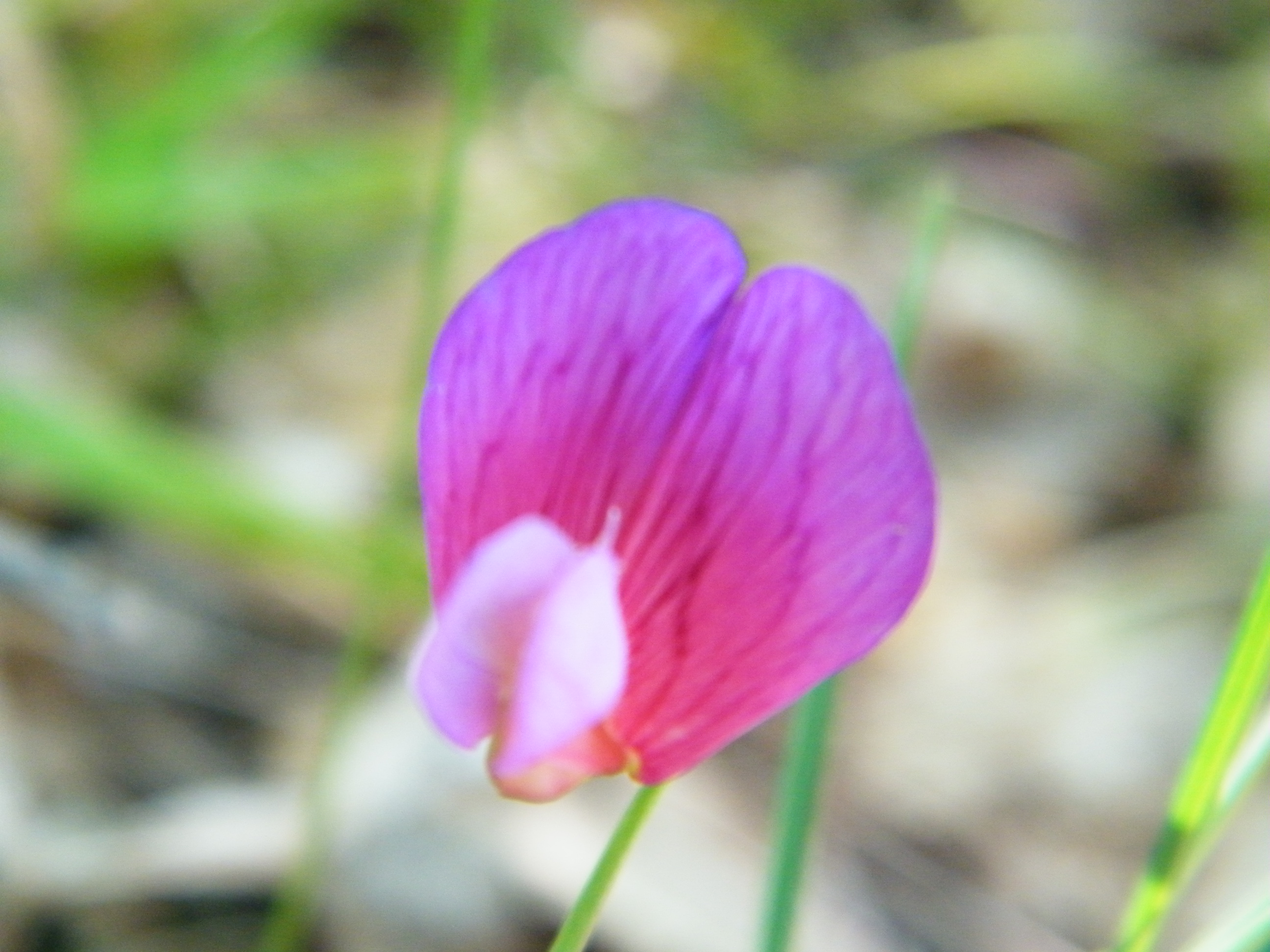 Lathyrus digitatus in Laspi